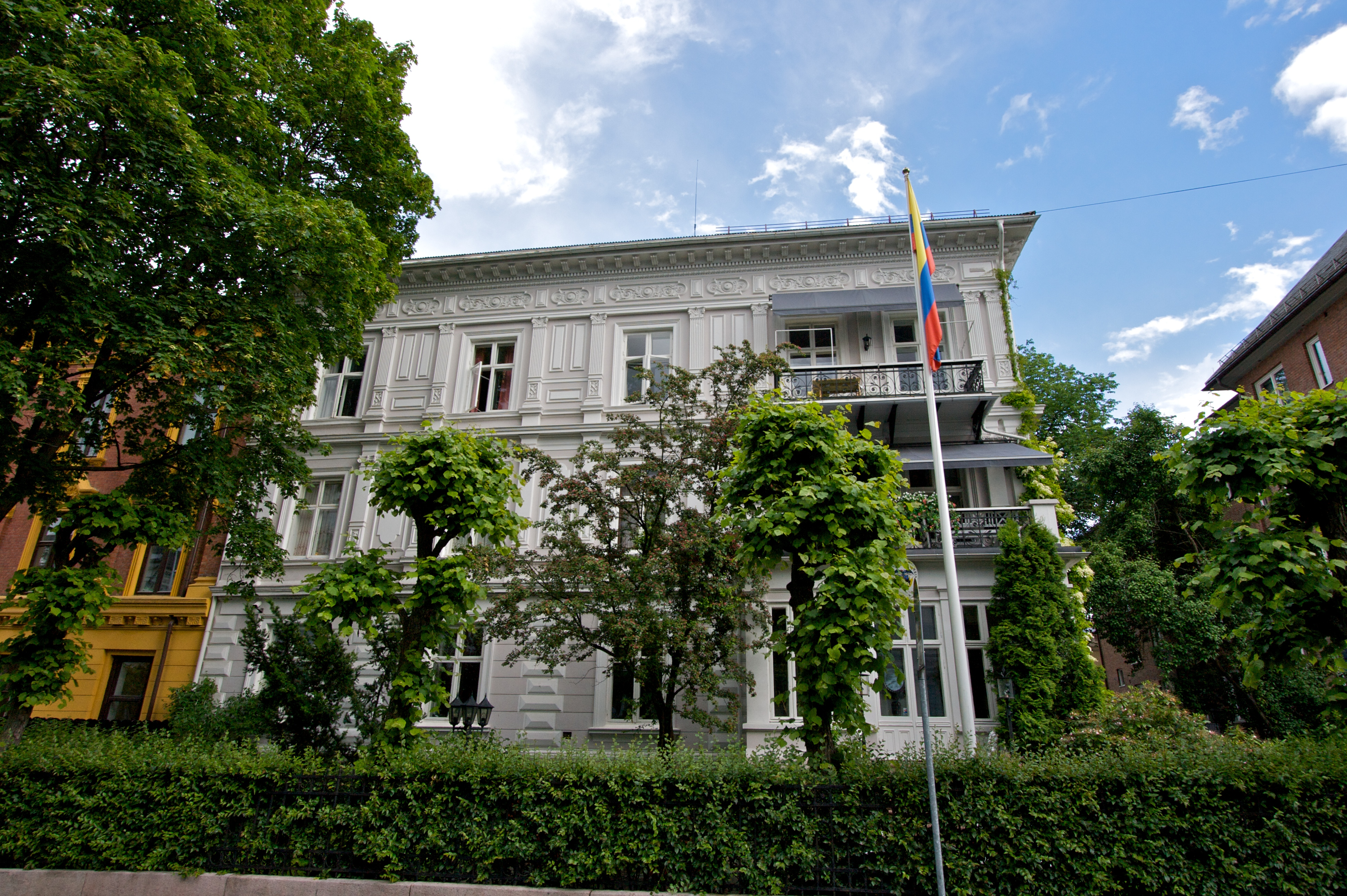 Colombian Embassy, Oslo, Norway.